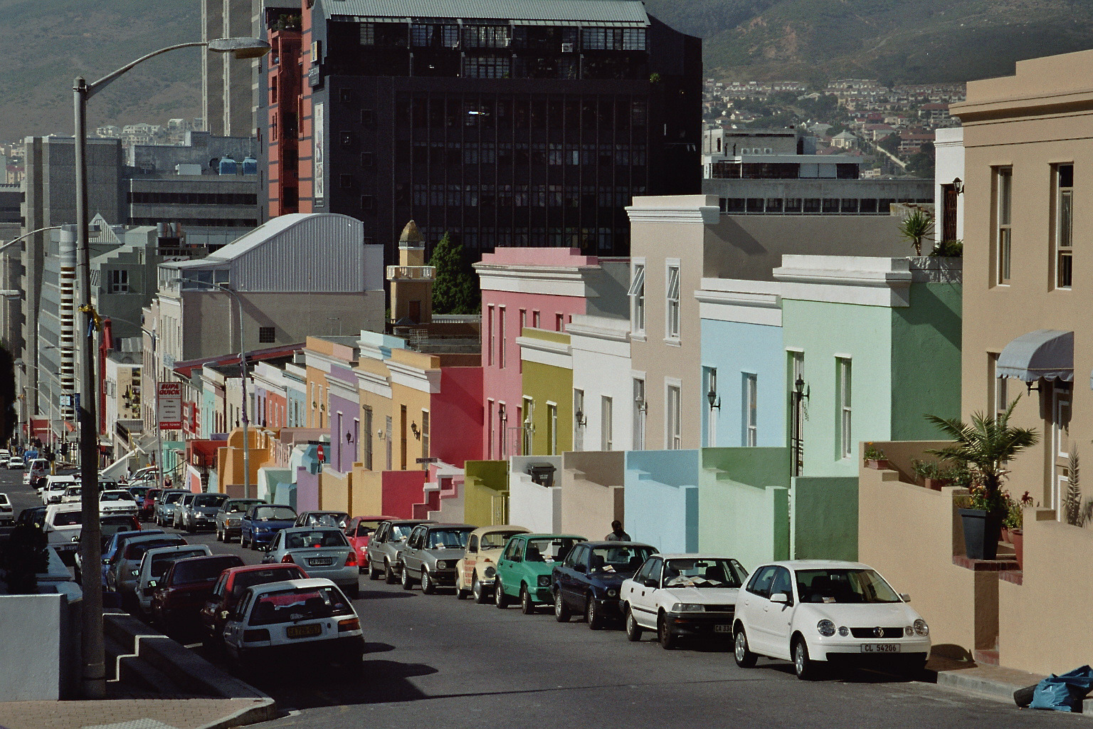 Cape Town